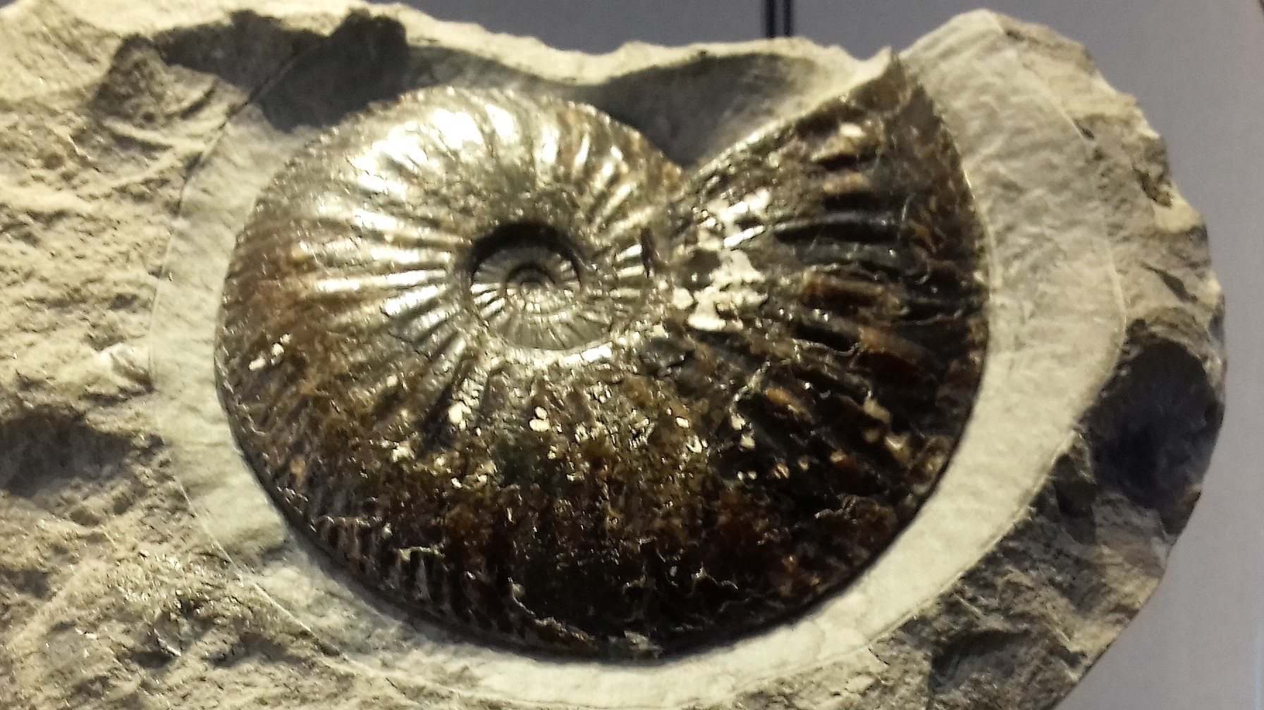 Amaltheus stokesi in the Rotunda Museum, Scarborough, England.